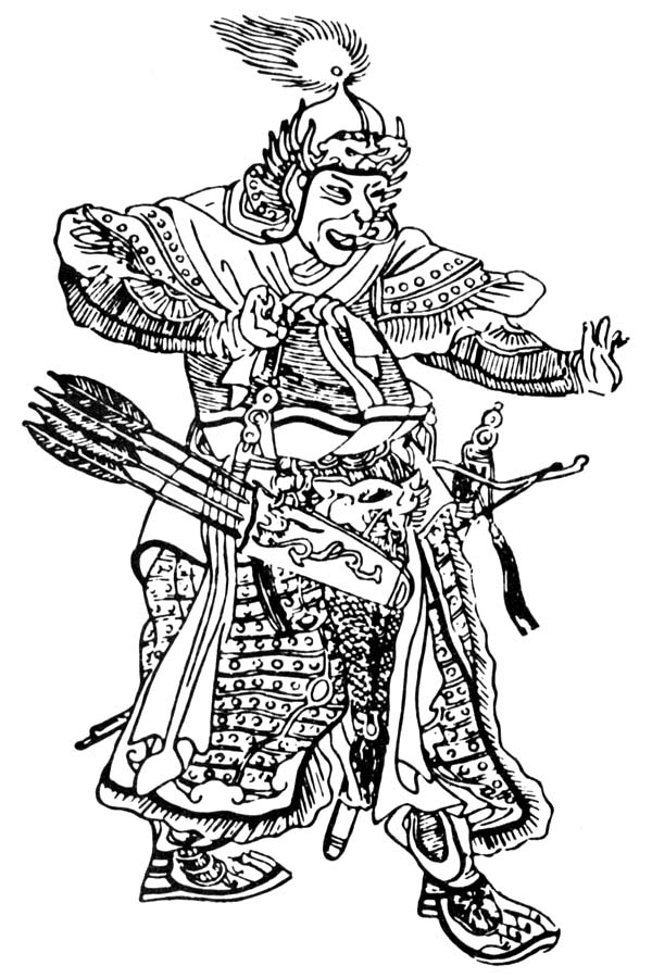 Subutai. Medieval Chinese drawing.